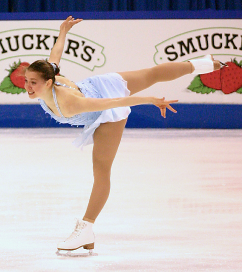 Emily Hughes performs a camel spin at the 2005 World Junior Championships in Kitchener, Ontario, Canada.